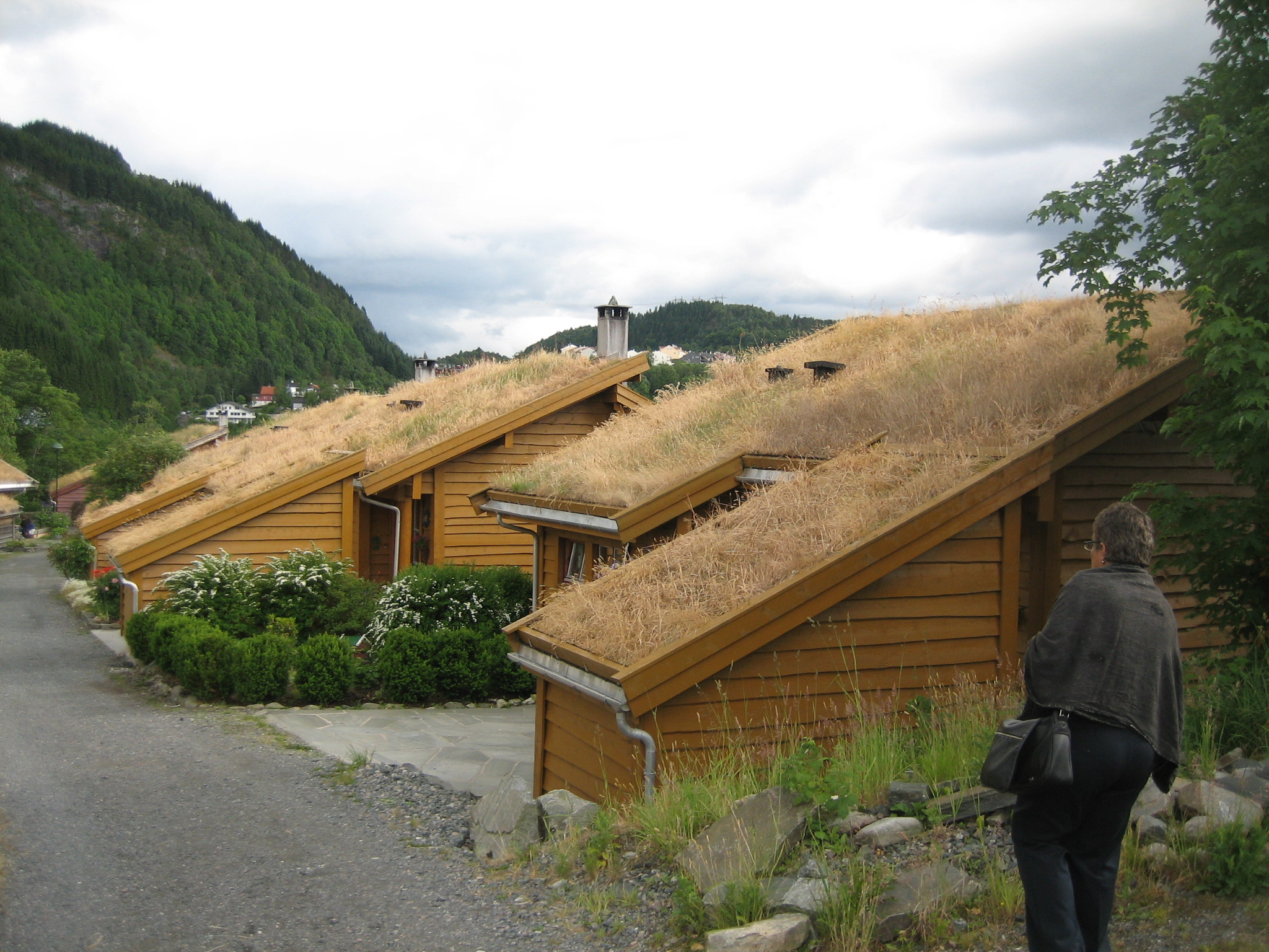 The wastewater from this village is collected by a vacuum system. Greywater is treated locally.